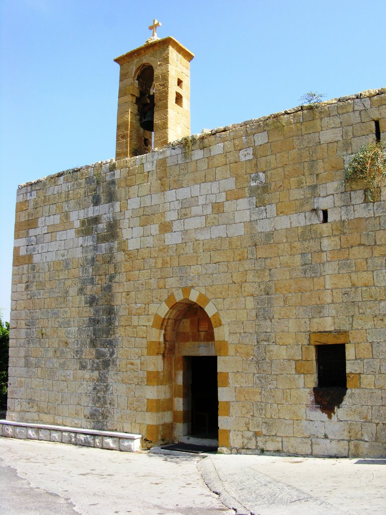 Abdo Yamine « Zakrit between yesterday and today »